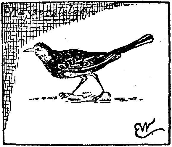 picture of Engelbert Wittich, made by himself before 1911.